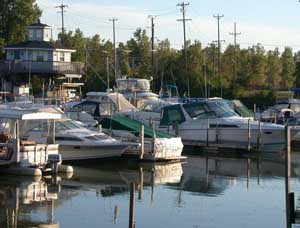 Boats on the River Raisin near Monroe (taken Sept. 28, 2004) © 2004 Matthew Trump